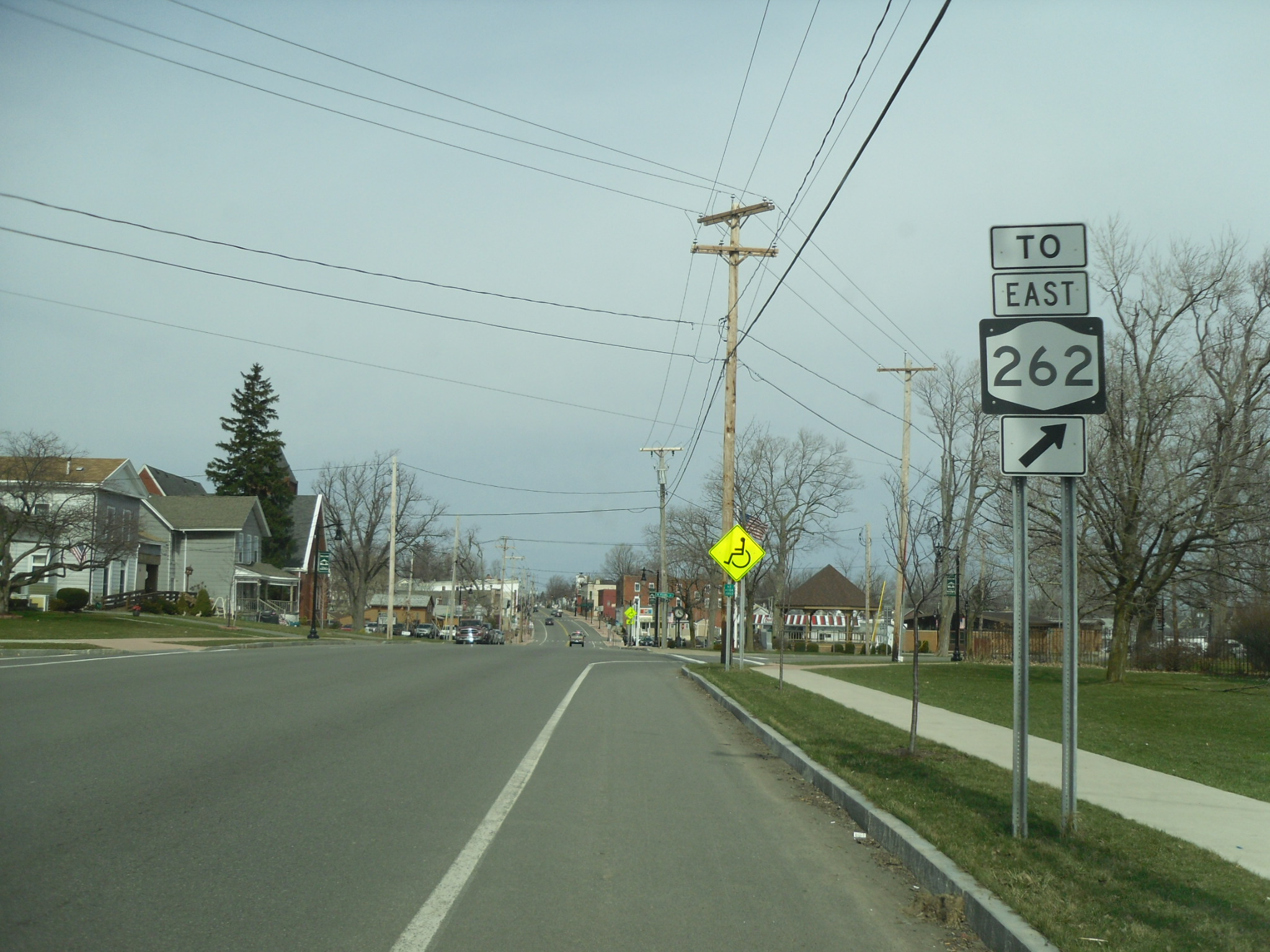 New York State Route 63 northbound at Pearl Street, an alternate route to New York State Route 262, in the village of Oakfield.